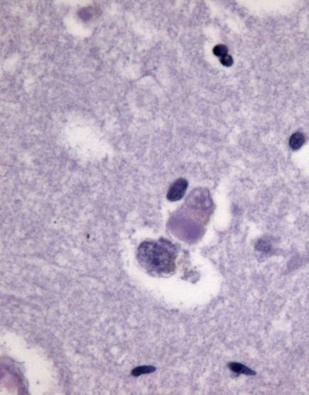 Autopsy case of Lewy body dementia showing eosinophilic neuronal inclusions (HE, moderate picture quality)